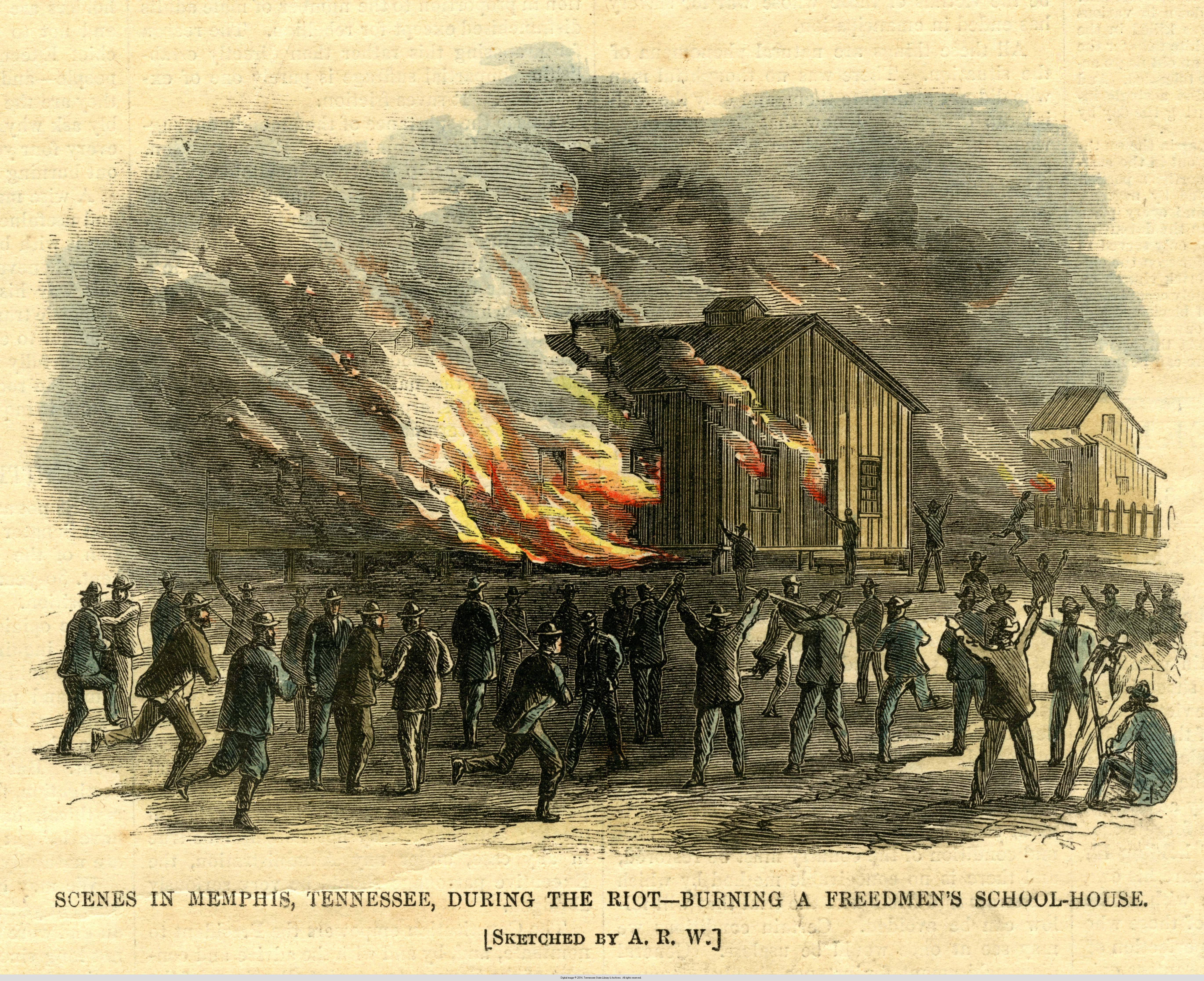 Illustration in Harper's Weekly of the Memphis Riot of 1866